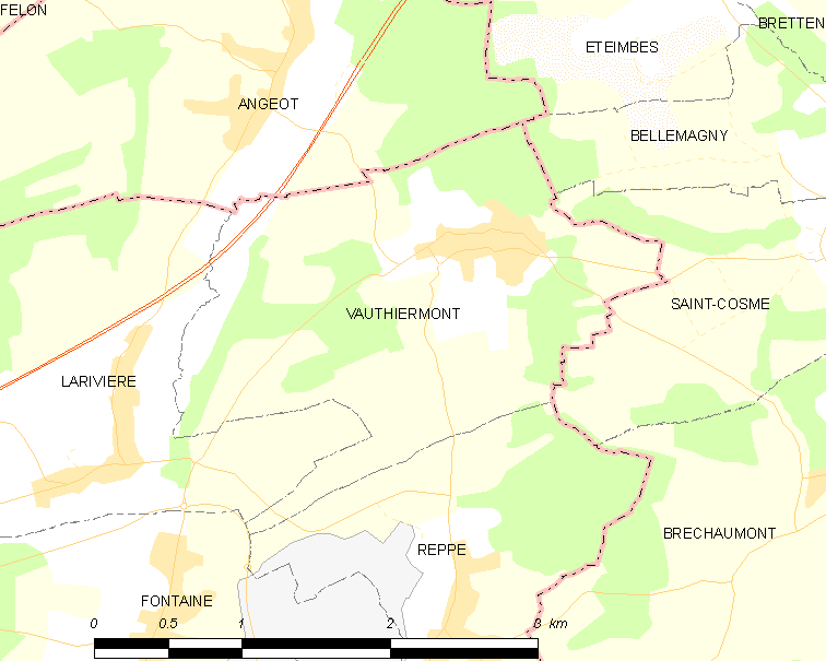 Map of French municipality Vauthiermont